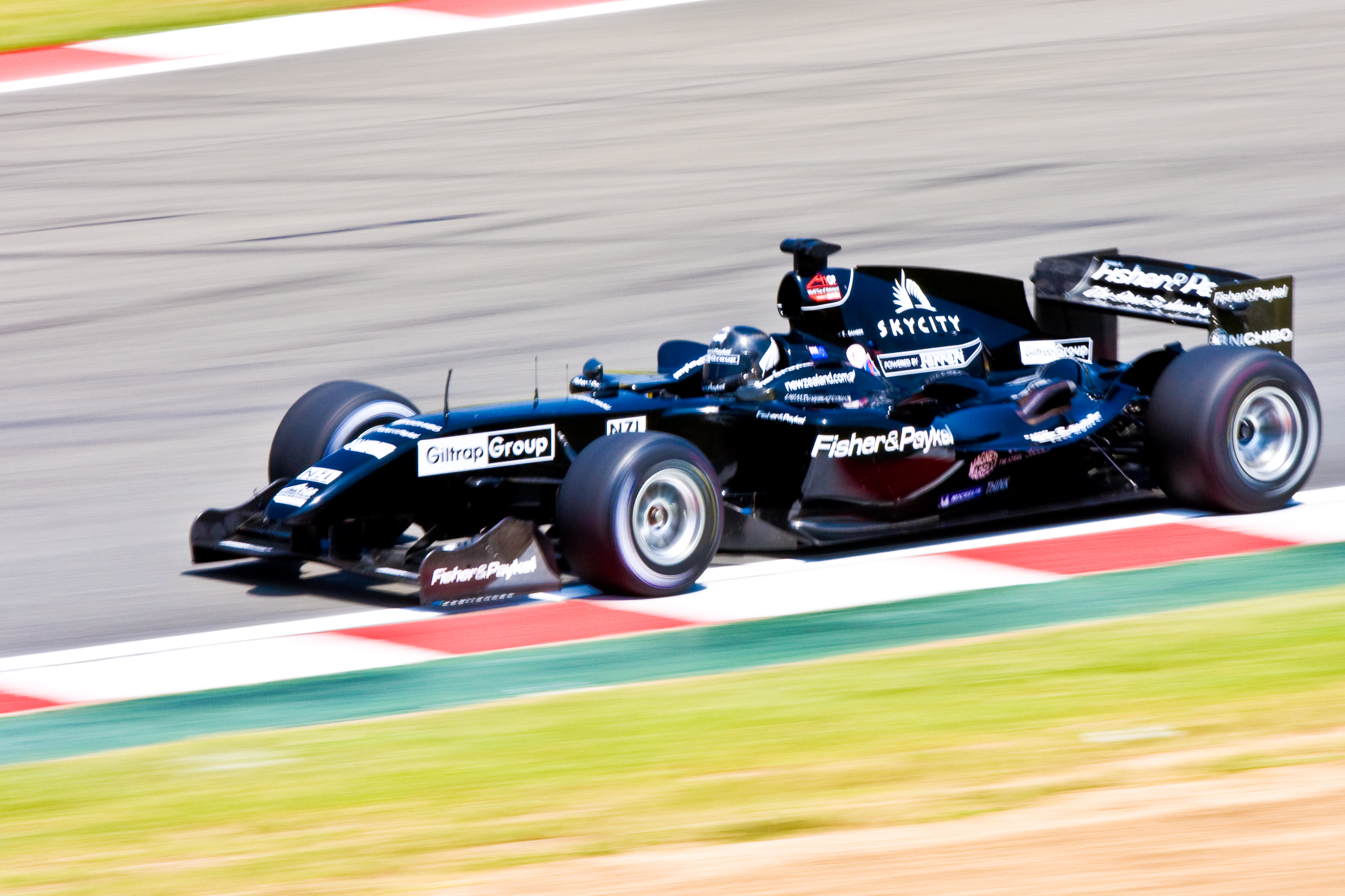 Team New Zealand @ A1 Grand Prix Kyalami South Africa 2009